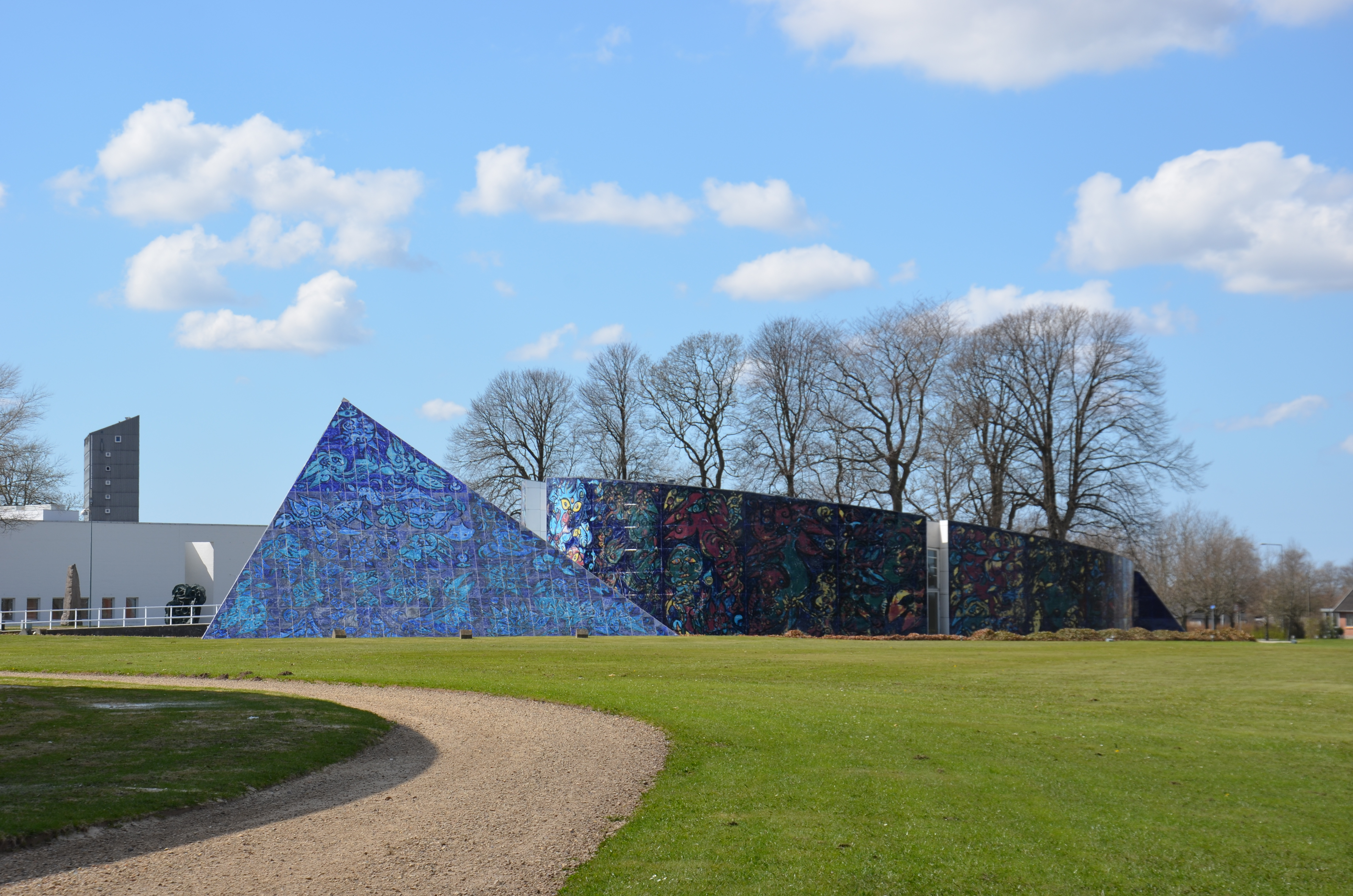 Carl Henning Pedersen og Else Alfelts Museum, Herning, Denmark